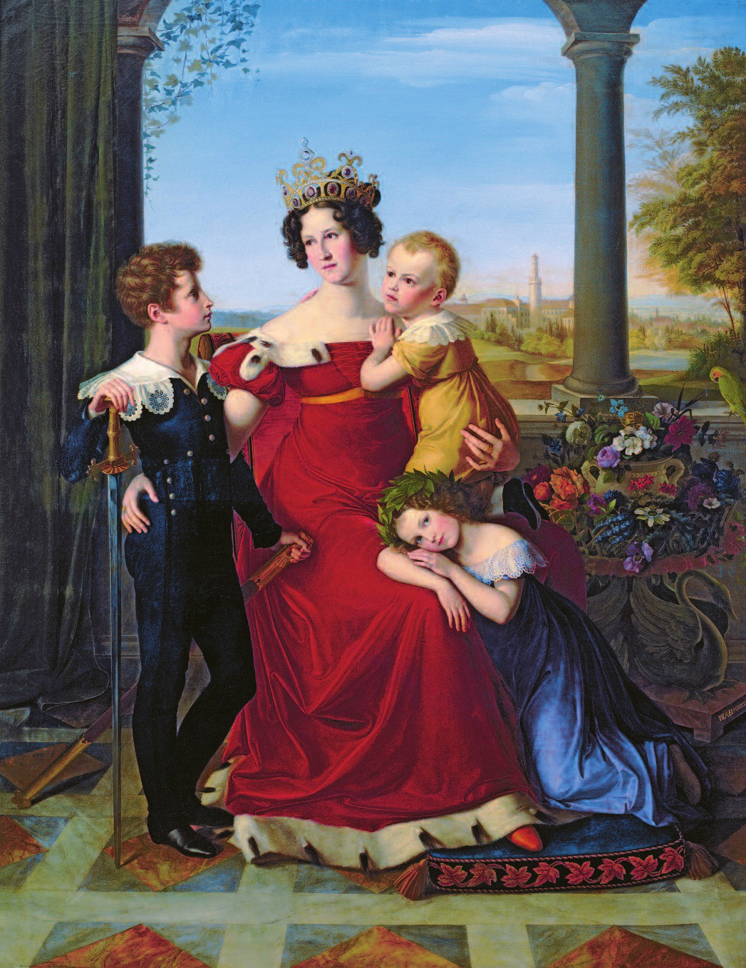 Princess Marianne of Prussia with her eldest surviving son Prince Adalbert of Prussia her oldest daughter Princess Elisabeth of Prussia who was to become the paternal grandmother of Empress Alexandra of Russia. She is holding her youngest son Prince Friedrich Wilhelm Waldemar of Prussia. She was also the grandmother of Ludwig II of Bavaria through her youngest daughter.